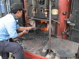 Burned coal from a train engine